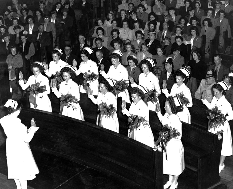 1947 20.3 cm x 25.4 cm Black and white photograph Graduating class reciting the Florence Nightingale Pledge. From left to right front row - Mildred Adams, Jacqueline Nelson, Irene Buchan, Iris Nilsson, Myrtle Hougen. Second row - Dorothy Kent, Yolanda Fillipini, Ruth Anderson, Peggy Bullock, Lillian Prokopuik, Verna Irving. The donor's wife, the late Mildred Eckmier (nee Adams), was a member of the Galt School of Nursing Class of 1947. To obtain high quality and larger reproductions of this image please visit the Galt Museum & Archives website: and include thIs number in your request: P19961027004